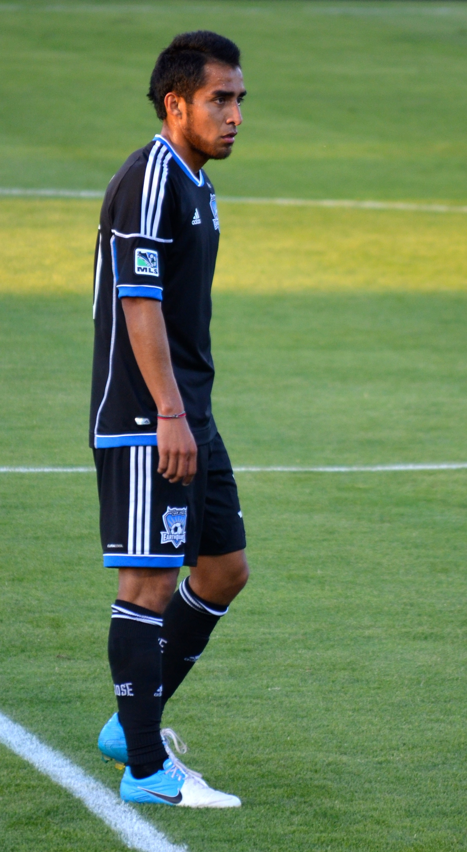 Rafael Baca of the San Jose Earthquakes at Buck Shaw stadium 28 July 2012. The Earthquakes were playing the Chicago Fire.